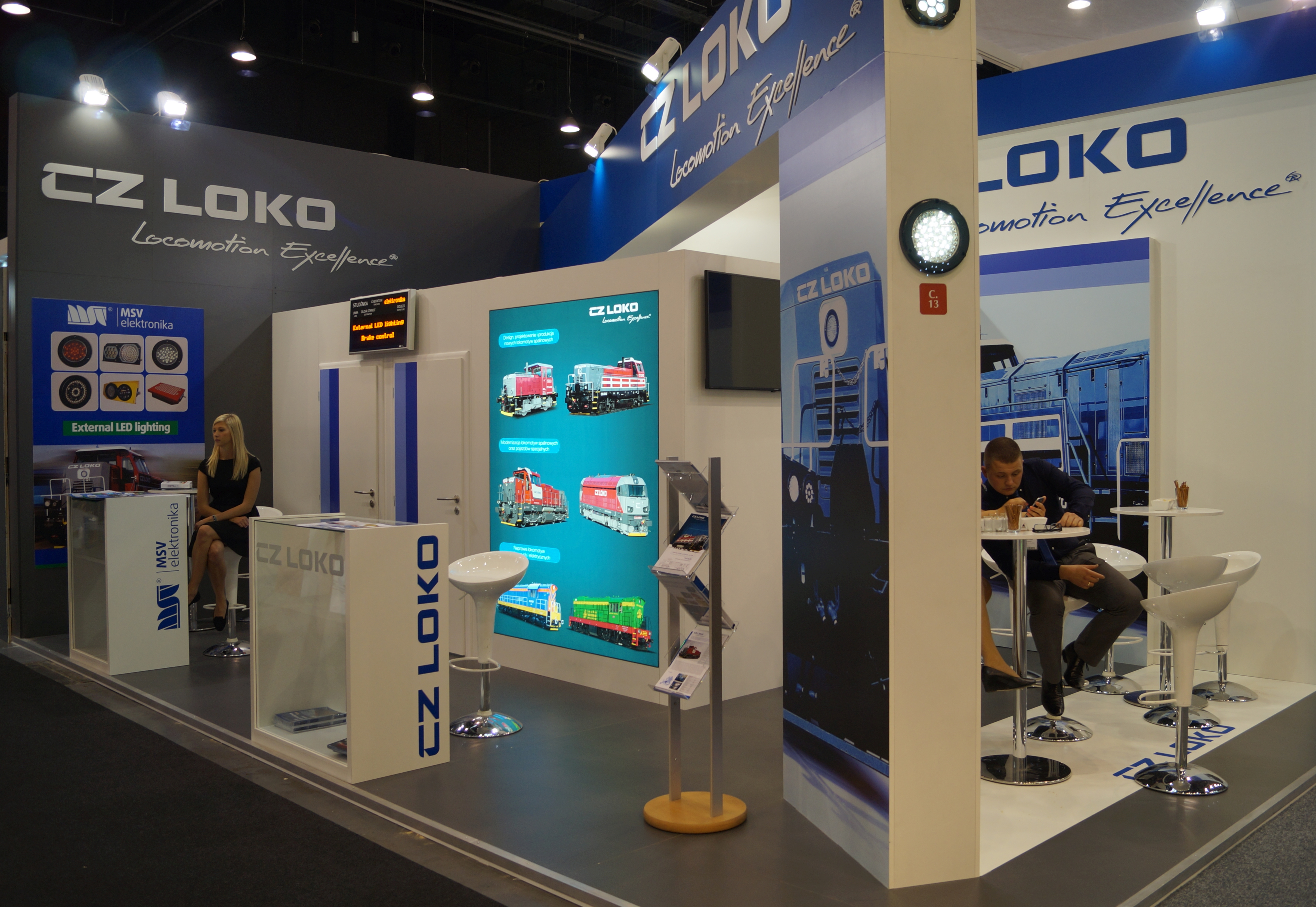 The making of this document was supported by Wikimedia Polska Association, within Wikigrant no. WG 2015-34. Stoisko CZ LOKO na Targach Trako 2015